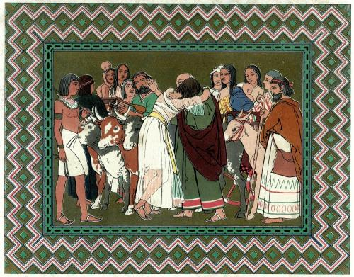 Illustration by Owen Jones from "The History of Joseph and His Brethren" (Day & Son, 1869). Scanned and archived at where it was marked as Public Domain. Text from Book: And Joseph made ready his chariot, and went up to meet Israel, his father, to Goshen, and presented himself unto him. And he fell upon his neck, and wept on his neck a good while. Genesis, C. XLVI. V. 29.